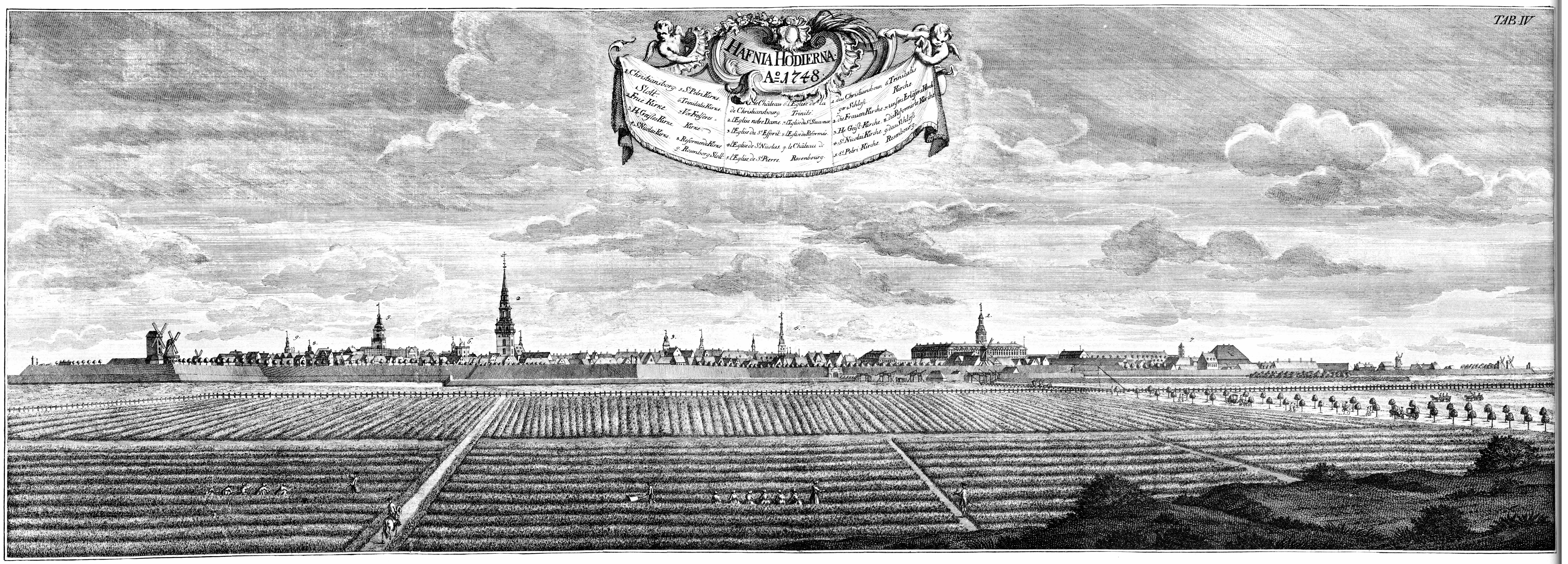 From Hafnia Hodierna by Laurids de Thurah, 1748. Drawings of Copenhagen. Tab. IV. Copenhagen 1748.